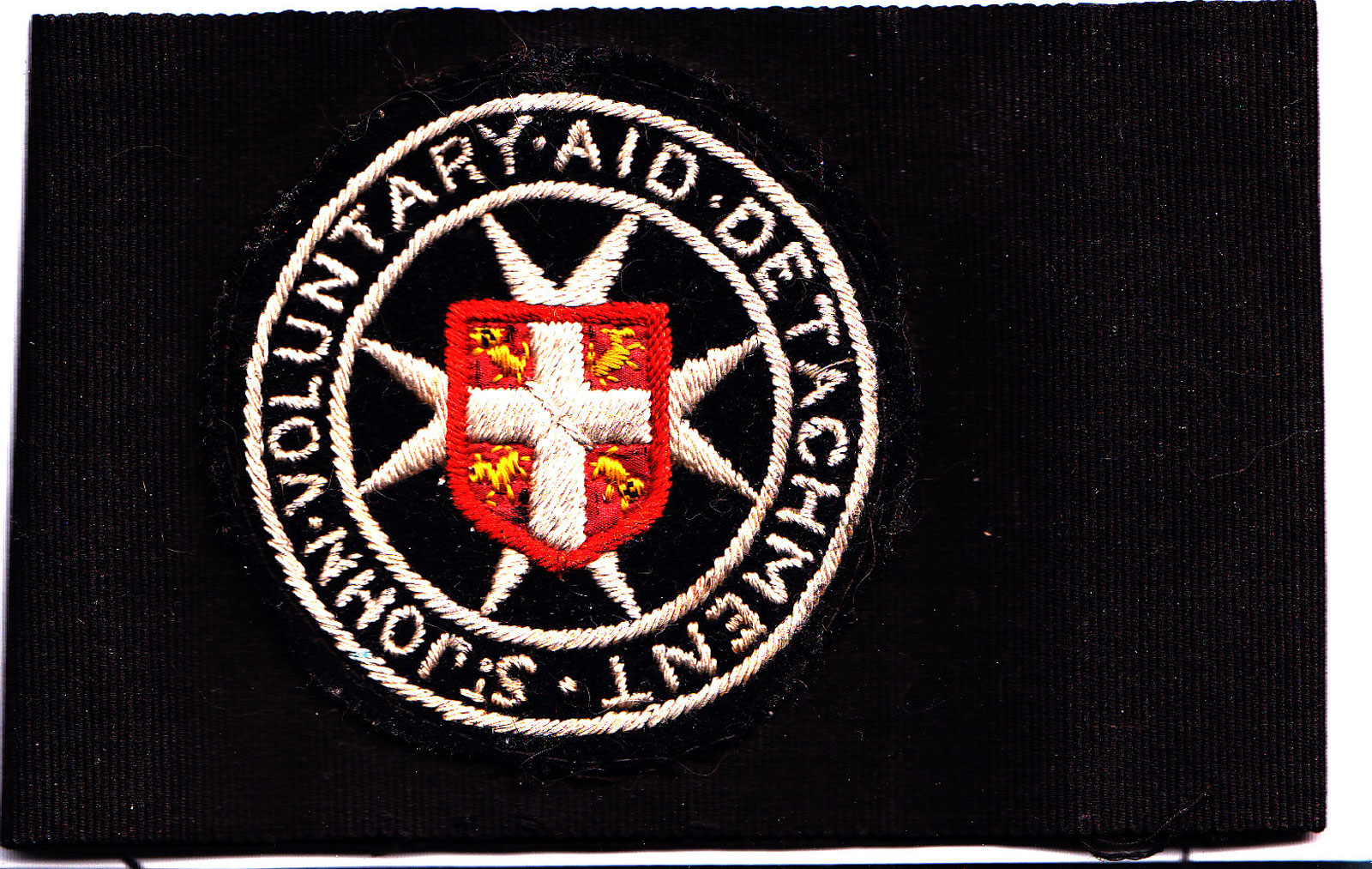 cloth badge of the VAD (Voluntary Aid Detachment)